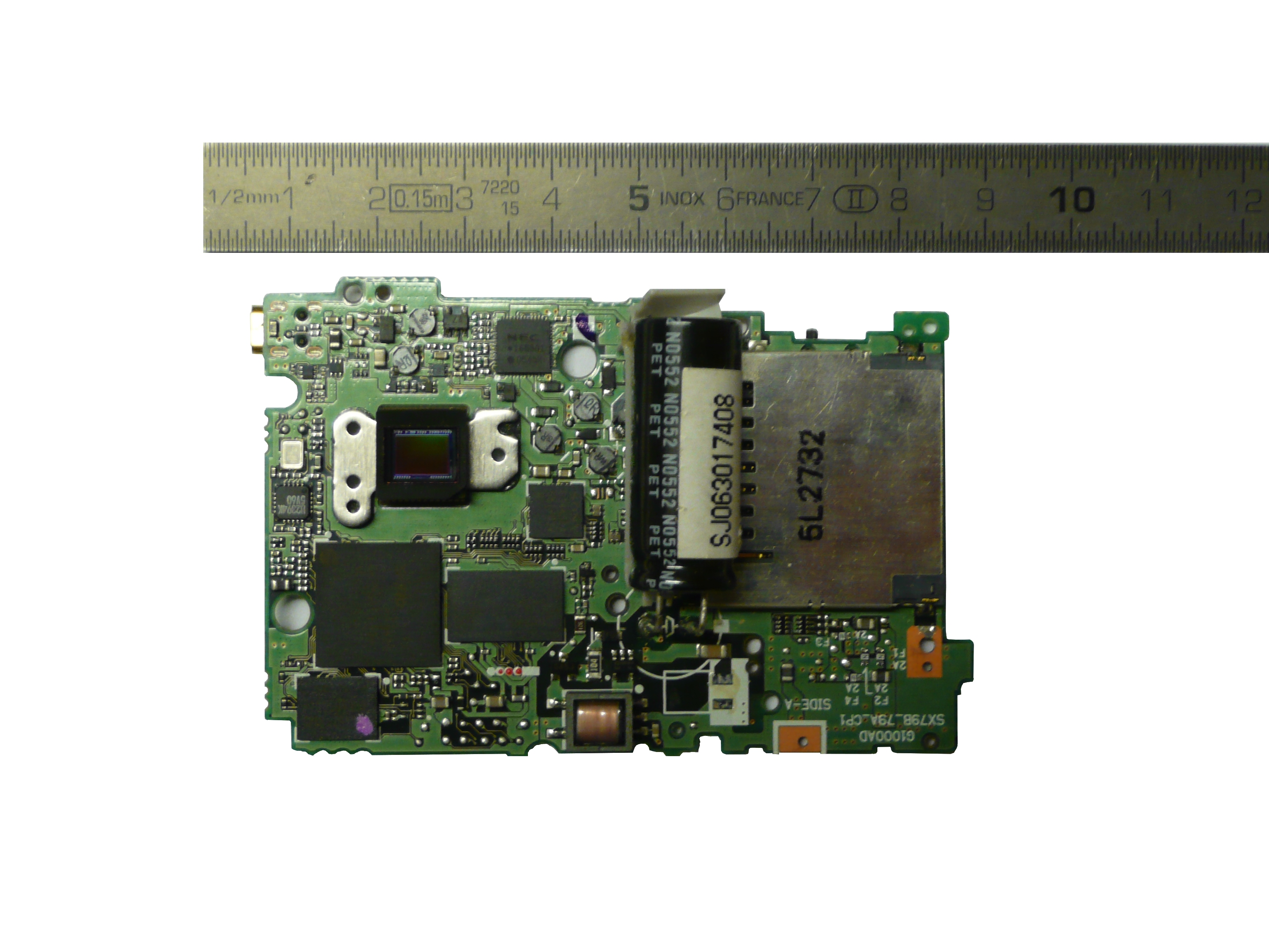 image sensor and motherboard of a nikon coolpix l2 (6MP, 3xZoom)